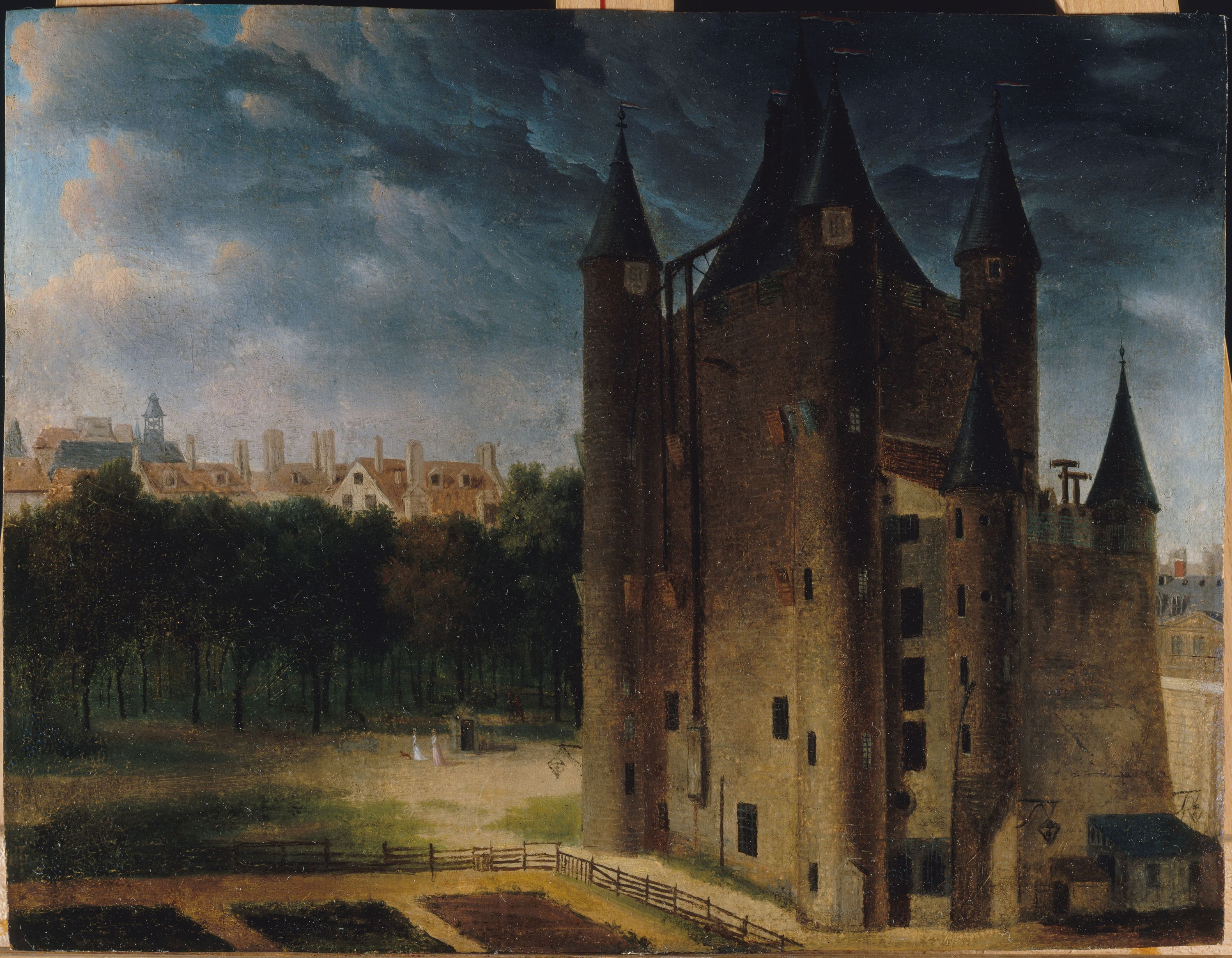 Tour du Temple, circa1795